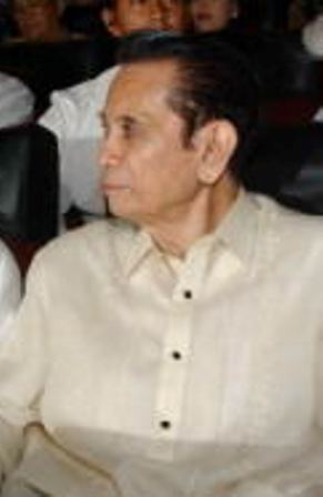 Cropped from a U.S embassy photo of Vice-President Guingona